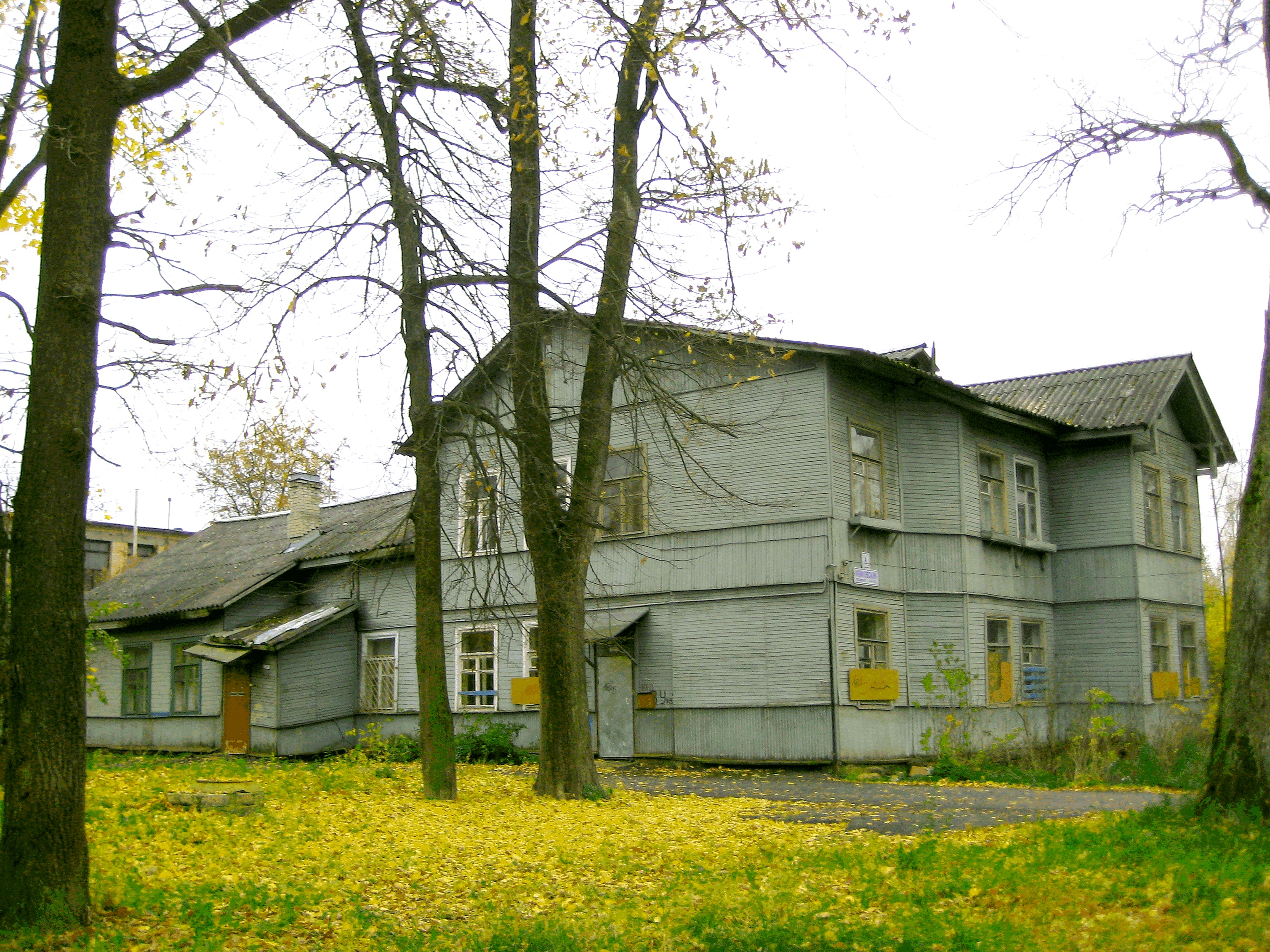 Dacha: Ilikovsky prospect, 8. Lomonosov, Petrodvortsovy district, St. Petersburg